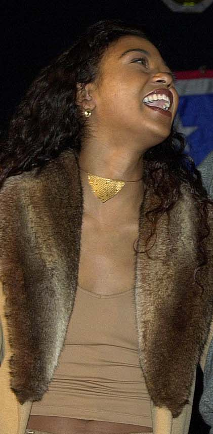 Former Pittsburgh Steeler quarterback Terry Bradshaw and MTV announcer Ananda Lewis entertain the crowd during the Secretary of Defense Holiday Tour 2000 show at Ramstein Air Base Germany. The Dec. 17 show attracted 2,000 service members and family.